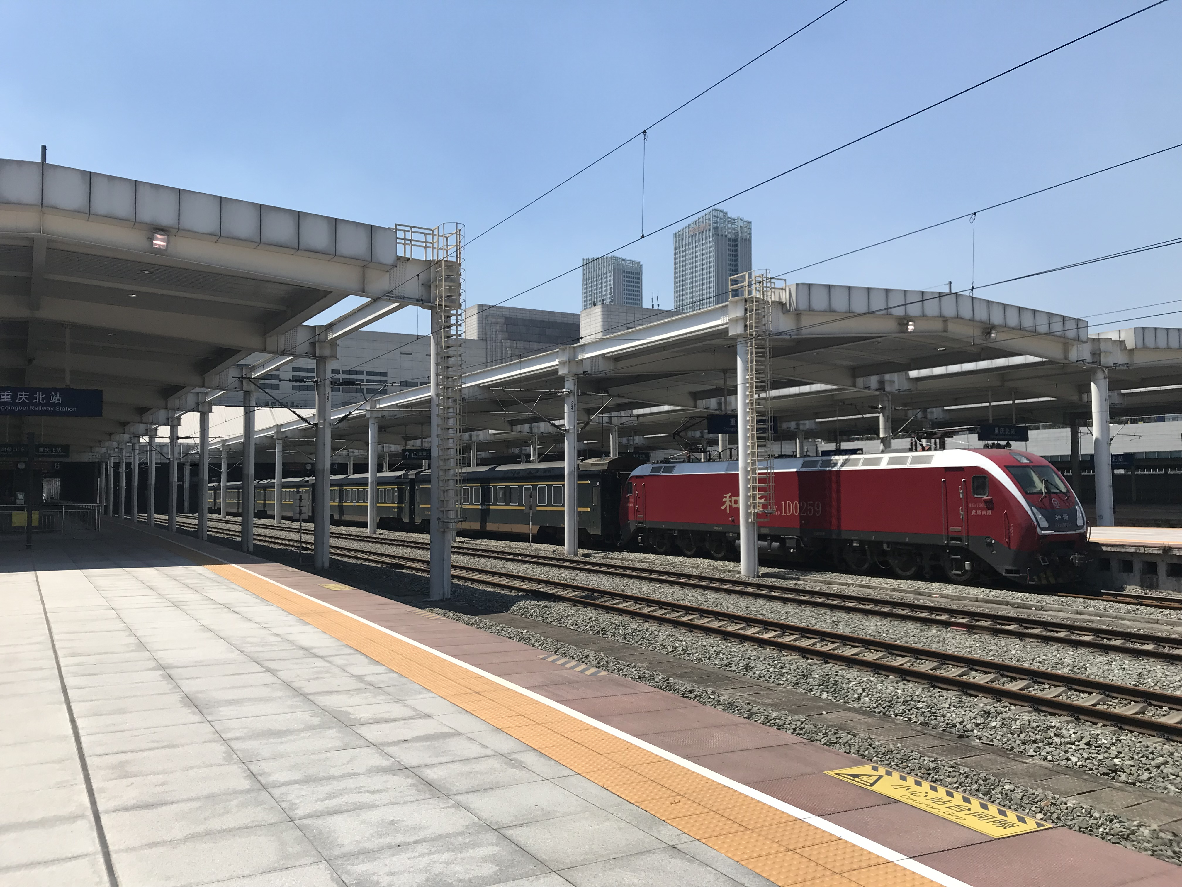 Z4 from Chongqingbei to Beijingxi